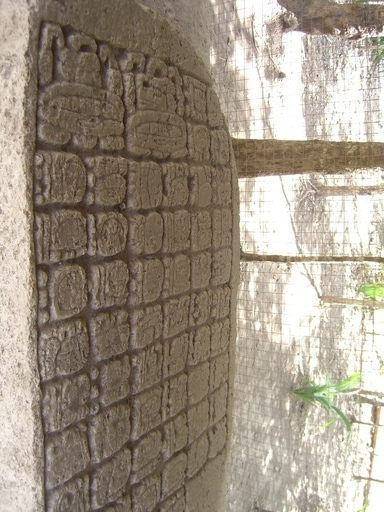 Large stela with inscriptions at Cobá, group D, Yucatán